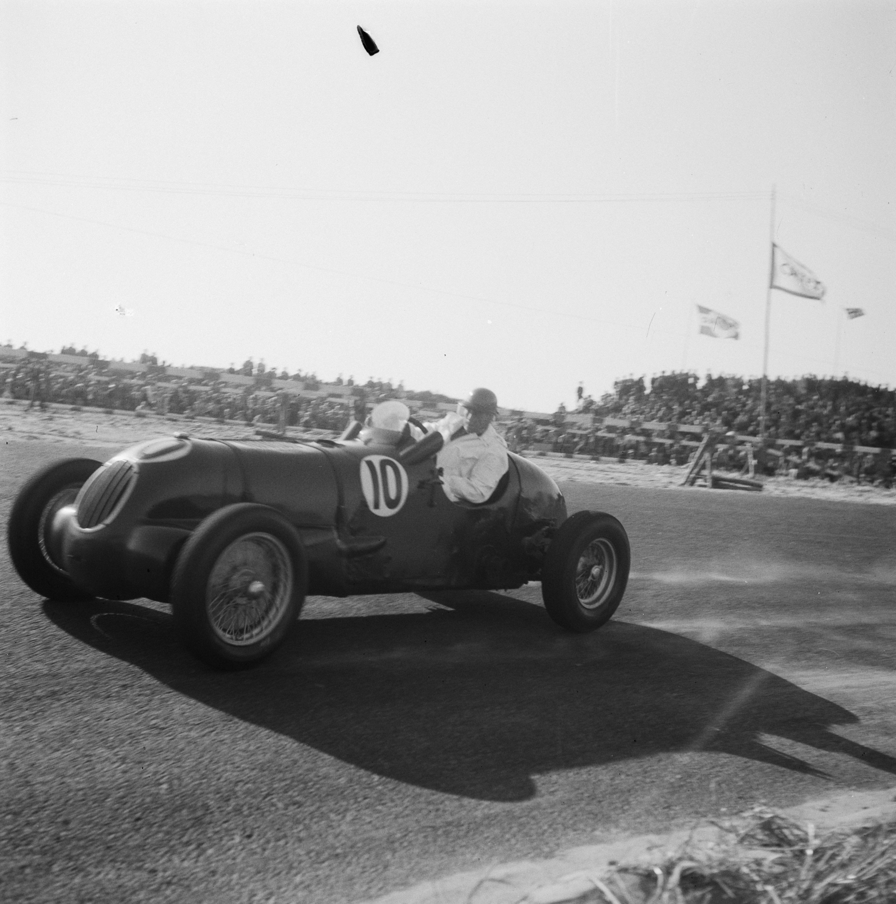 Maj. Tony Rolt in an "Alfa-Aitken Speciale", which was an Alfa Romeo made by Peter Aitken,[1] who was the son of Lord Beaverbrook and lived 1912–47.[2] In 1938/39, Aitken had used half of the pre-war Alfa Romeo 16C bimotore (two 3.17-litre engines), and made the "monomotore" (single engine) seen in this picture from Zandvoort from 1948. This Alfa-Aitken "monomotore" was raced both before and after the World War II, and then sold to New Zealand.[3]